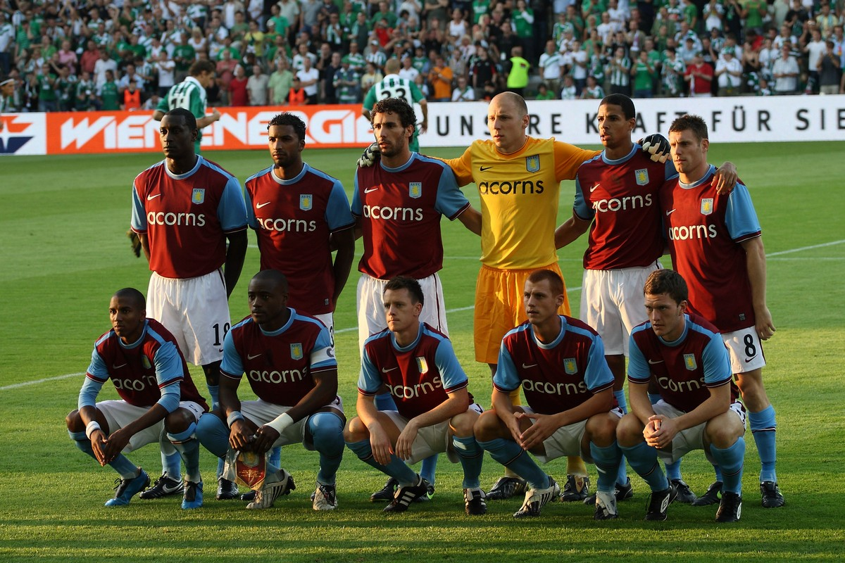 Starting eleven of Aston Villa just before the 2009–10 UEFA Europa League play-off round match against SK Rapid in Vienna. Top (L-R): Emile Heskey, Habib Beye, Carlos Cuellar, Brad Guzan, Curtis Davies, James Milner. Bottom (L-R): Ashley Young, Nigel Reo-Coker, Nicky Shorey, Steve Sidwell, Craig Gardner.